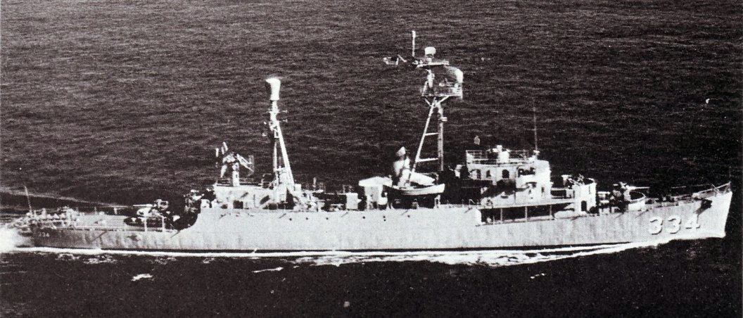 The U.S. Navy radar picket destroyer escort USS Forster (DER-334) underway, circa in 1957.